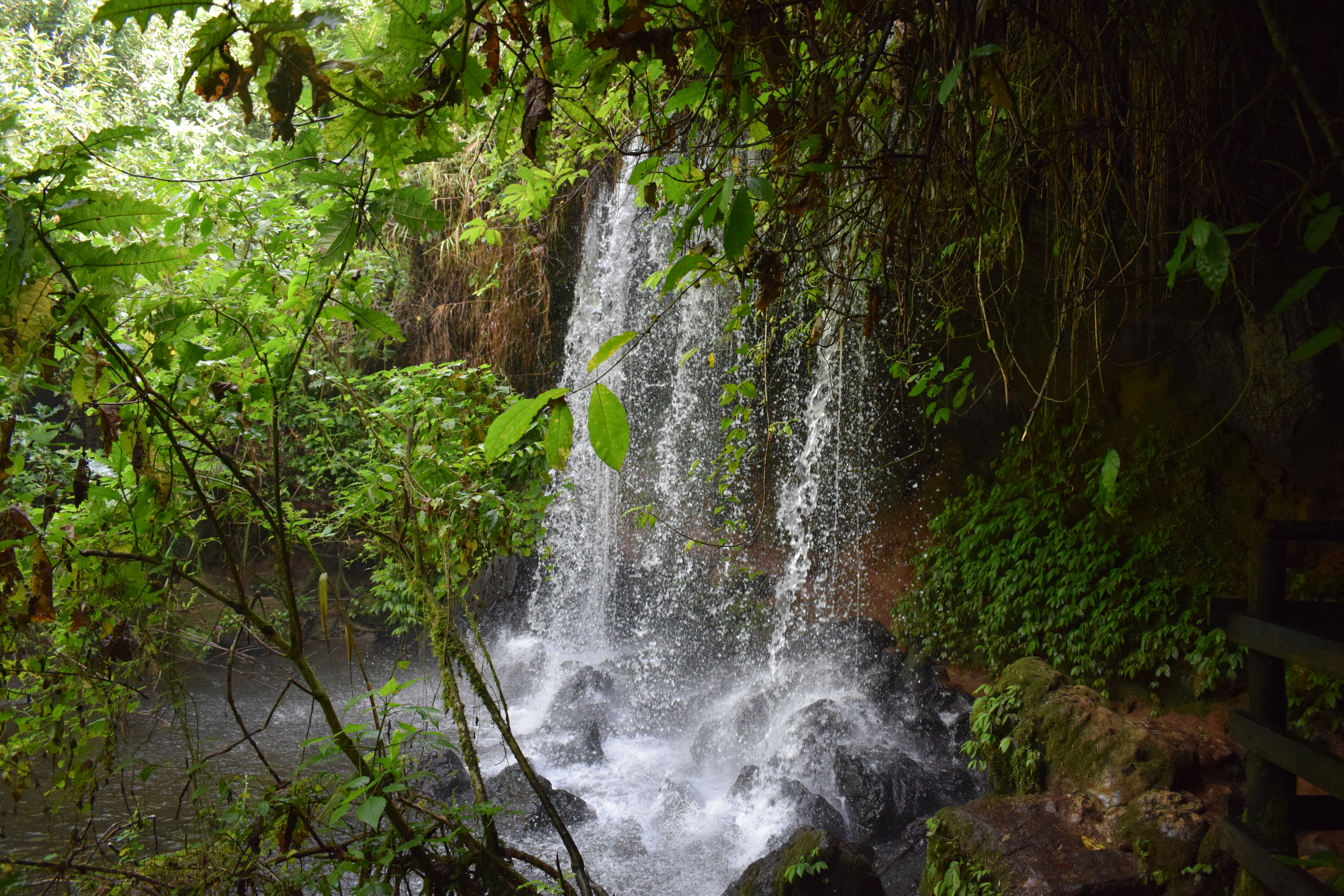 Waterfall Point